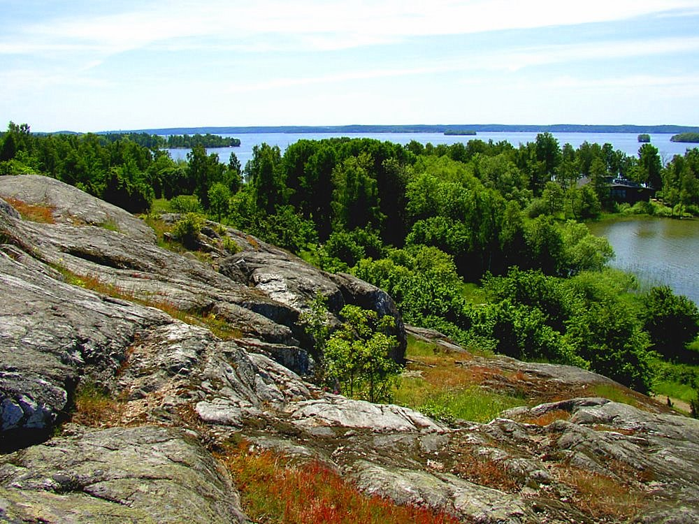 Björkö, Sweden. – "Trip to Birka. (Almost) on top of the mountain on Björkö (Birch island) with a view over the bay below from where we came with the boat. The lake Mälaren is a huge lake, not that wide but very long and with a big amounts of islands and bays."